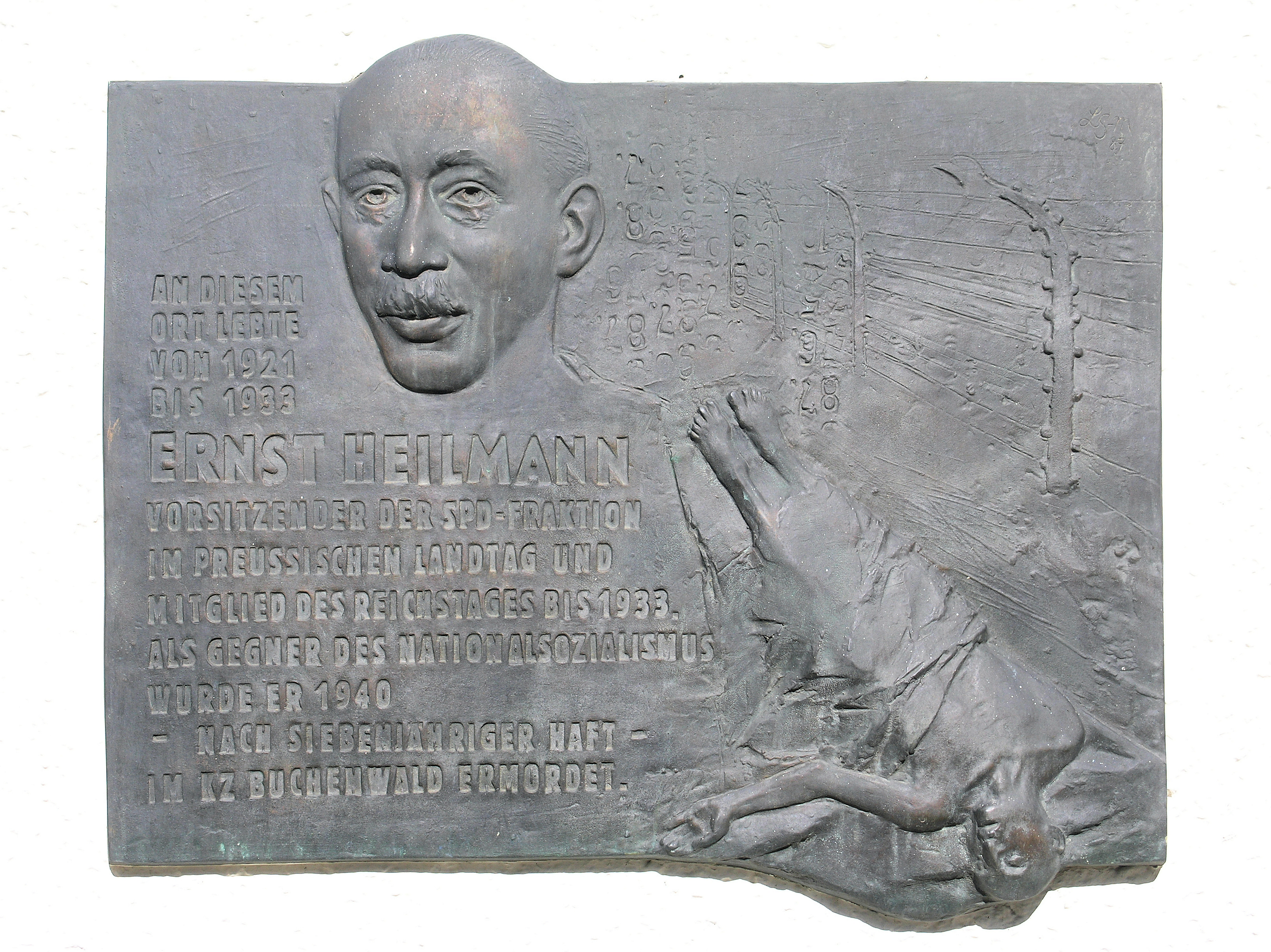 Memorial plaque, Ernst Heilmann, Brachvogelstraße 5, Berlin-Kreuzberg, Germany Koordinate:52°29′46″N 13°23′53″E / 52.49611°N 13.39806°E